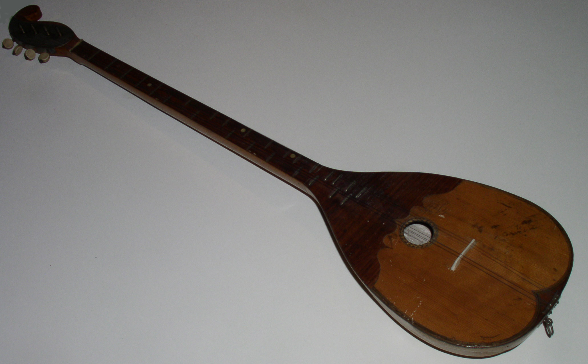 4 string (2 pairs) tambura-like instrument sold in Prague as 'brac' It has frets using only half the neck (diatonic-style) only first 5 are neck wide. own picture